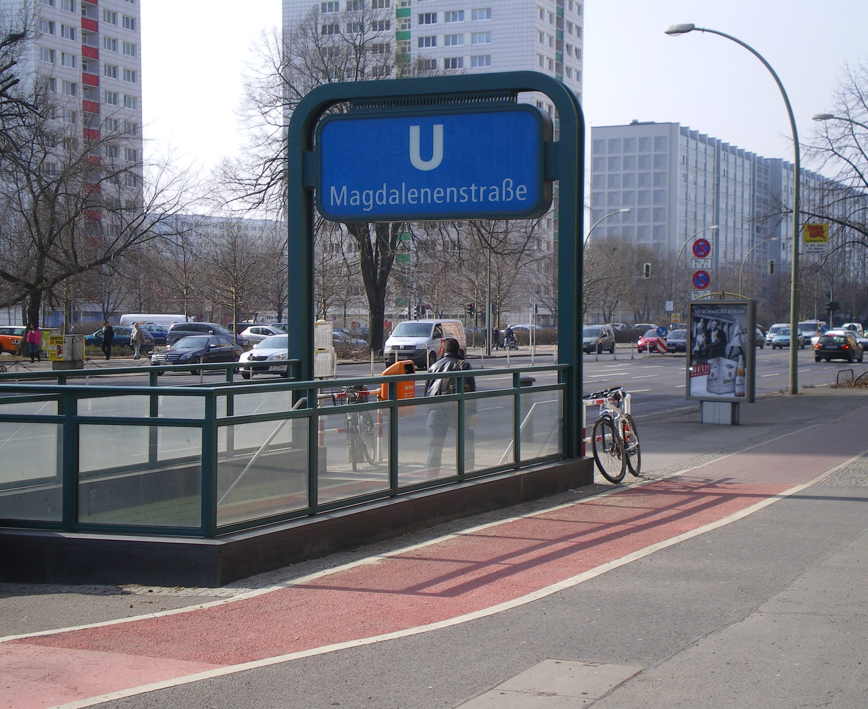 The U-bahnhof Magdalenenstrasse`s entrance nearest to Stasimuseum Berlin Ruschestraße 103, Haus 1 10365 Berlin Germany